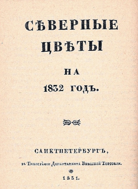 The title page of the "Severnie tsveti" prospect on 1832 (russian "Северные цветы") literary miscellany of Anton Delvig. Published by Alexander Pushkin, 1831.